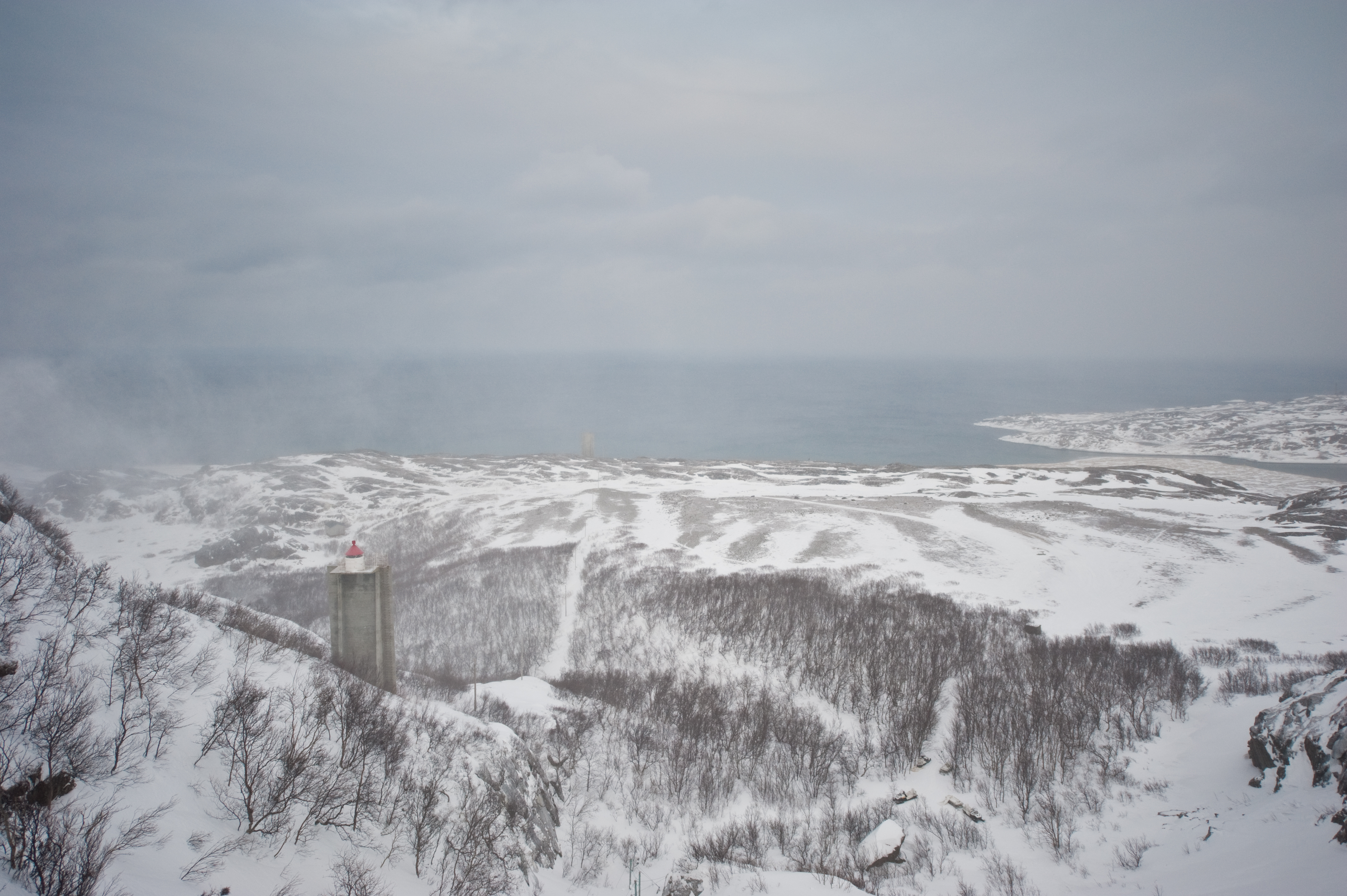 GSV (44 of 46)